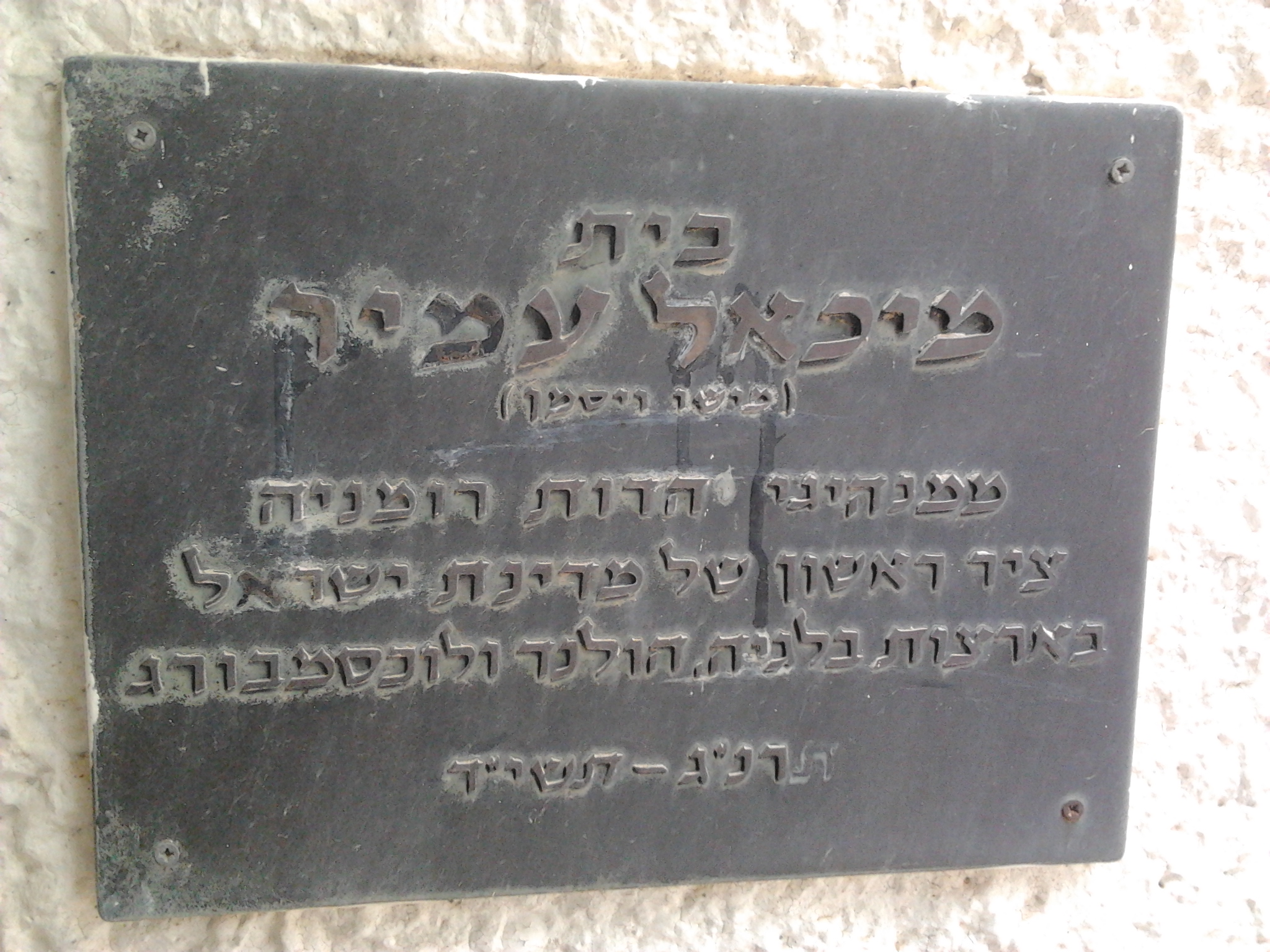 Michael Amir House in Kibbutz Tzuba (Google translate)